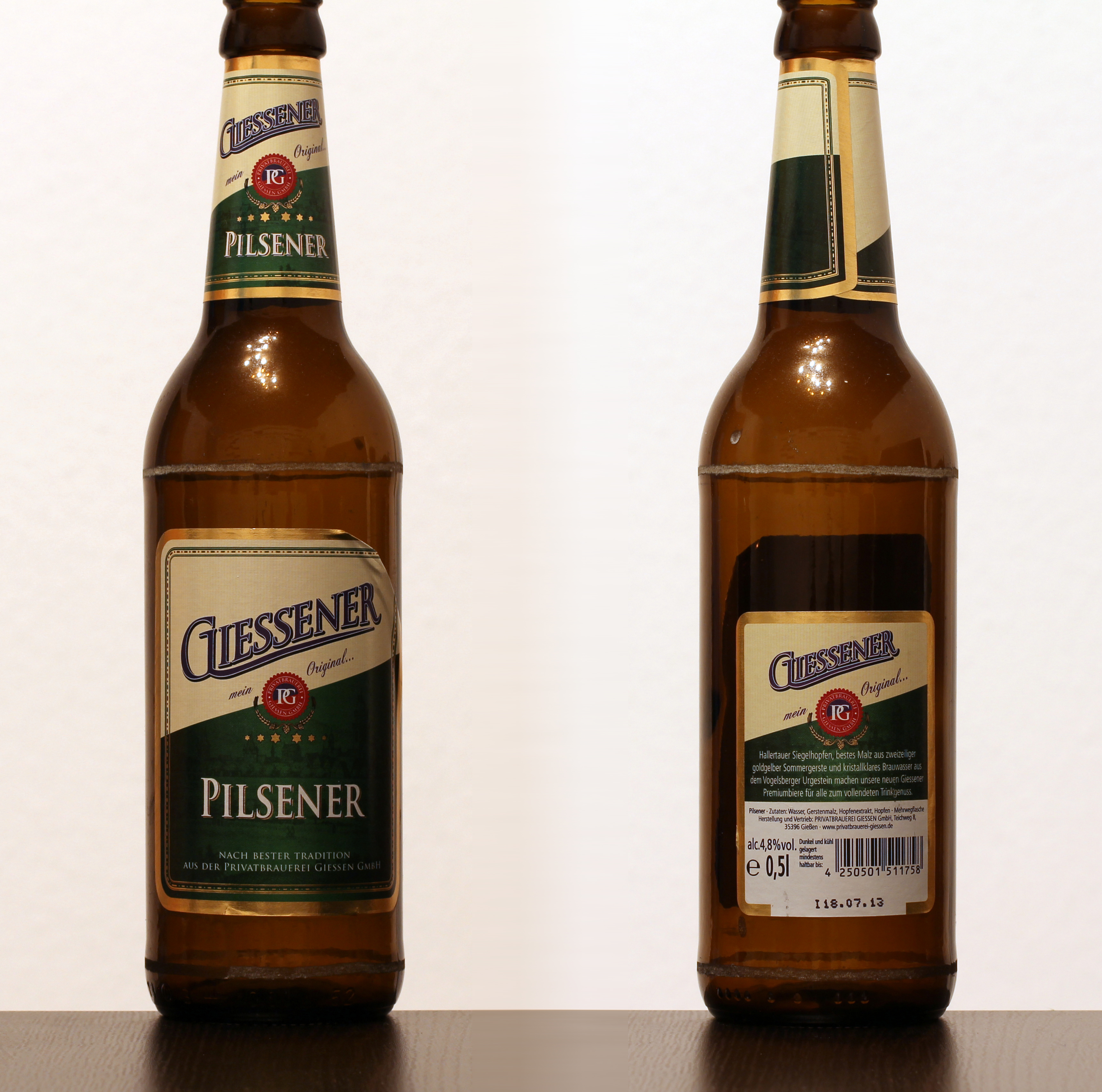 Two bottles of Gießener Pilsner